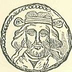 Coin of Artabanus II of Parthia (10-38 CE). In older literature he is often called Artabanus III.